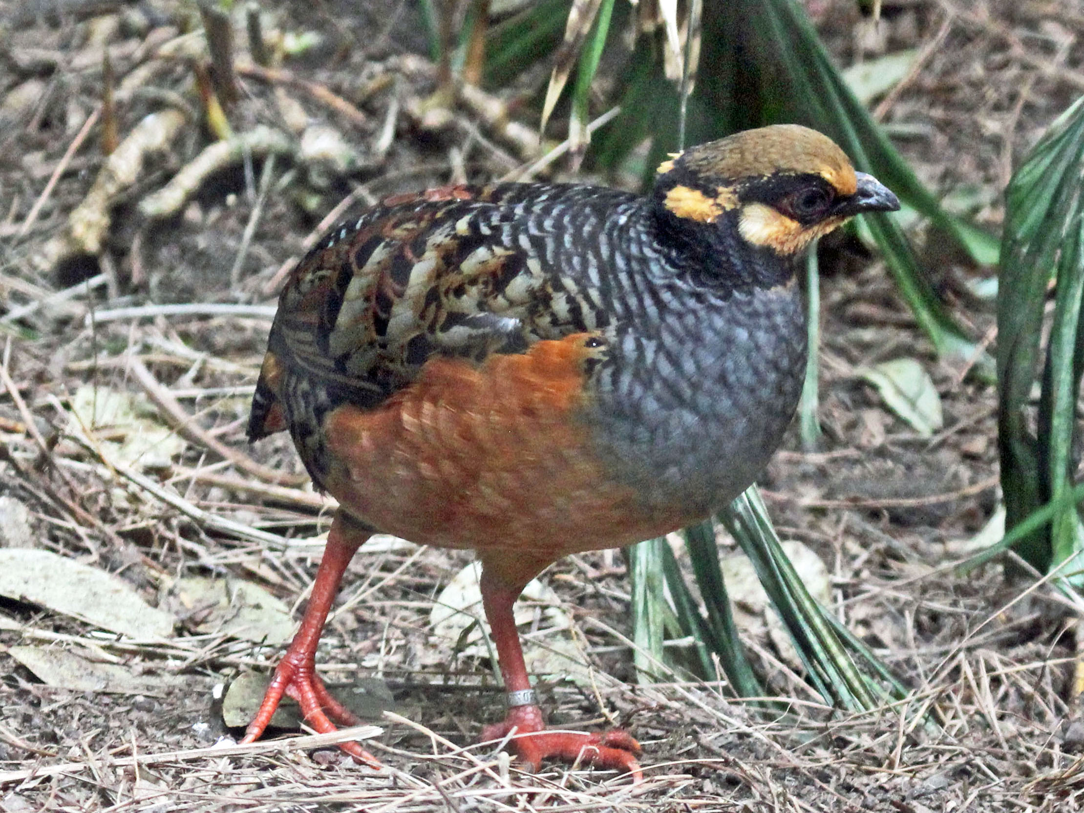 Chestnut-bellied Partridge, also Chestnut-bellied Hill Partridge (Arborophila javanica) - San Diego Zoo